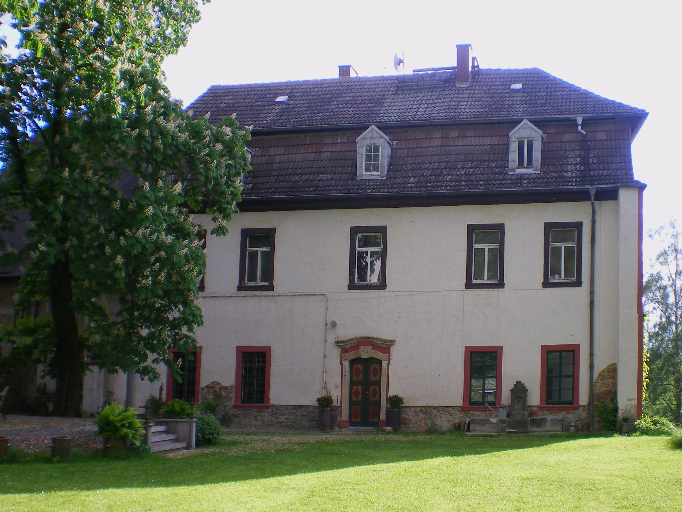 Part of castle in Schmölln-Selka near Gera/Thuringia in district of Altenburger Land